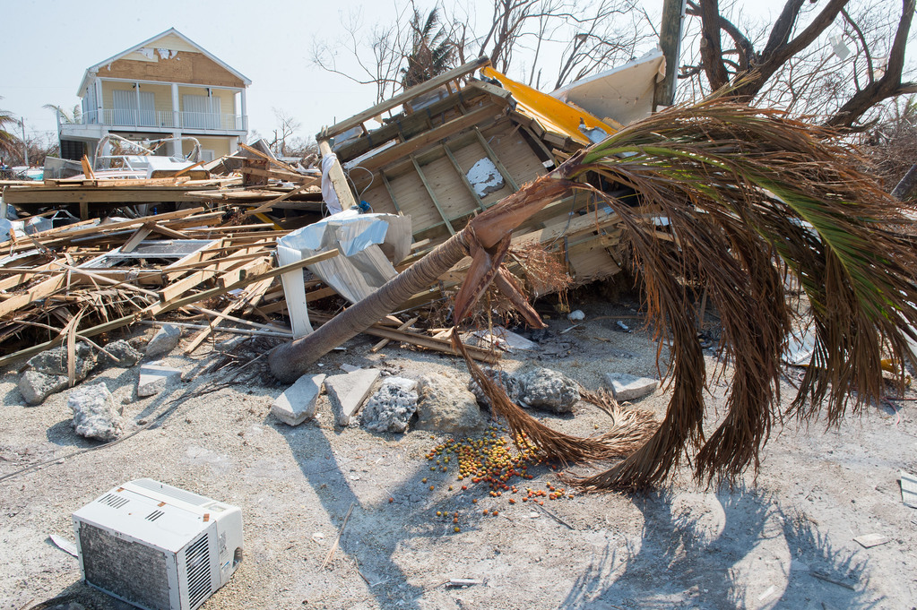 Remains of a neighborhood destroyed by Hurricane Irma in Big Pine Key, Florida on Wednesday, Sept. 20, 2017. Photo by J.T. Blatty / FEMA